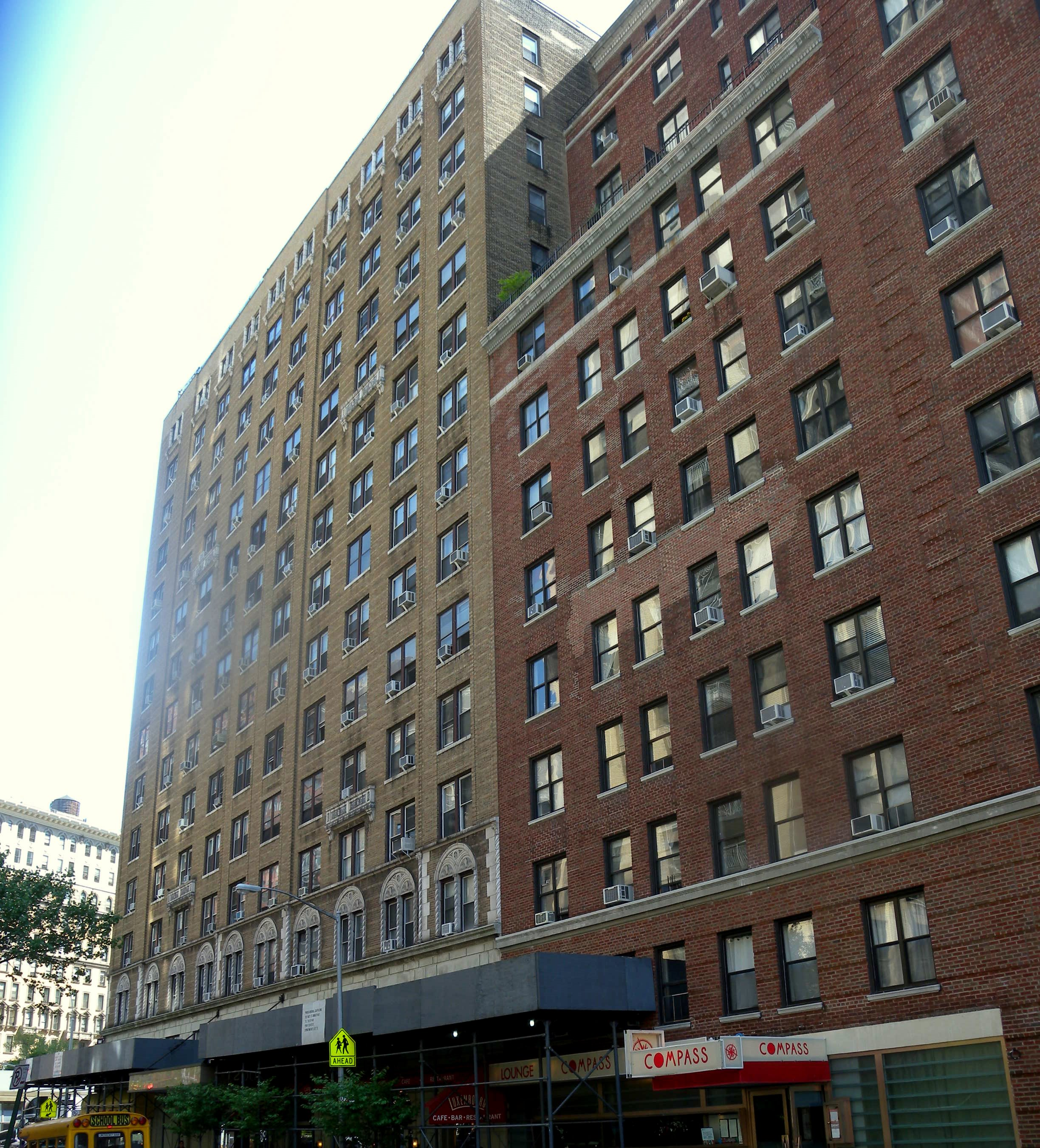 Looking south towards Broadway, at Bradford (right) and Chalfont Hotels on a partly cloudy day.